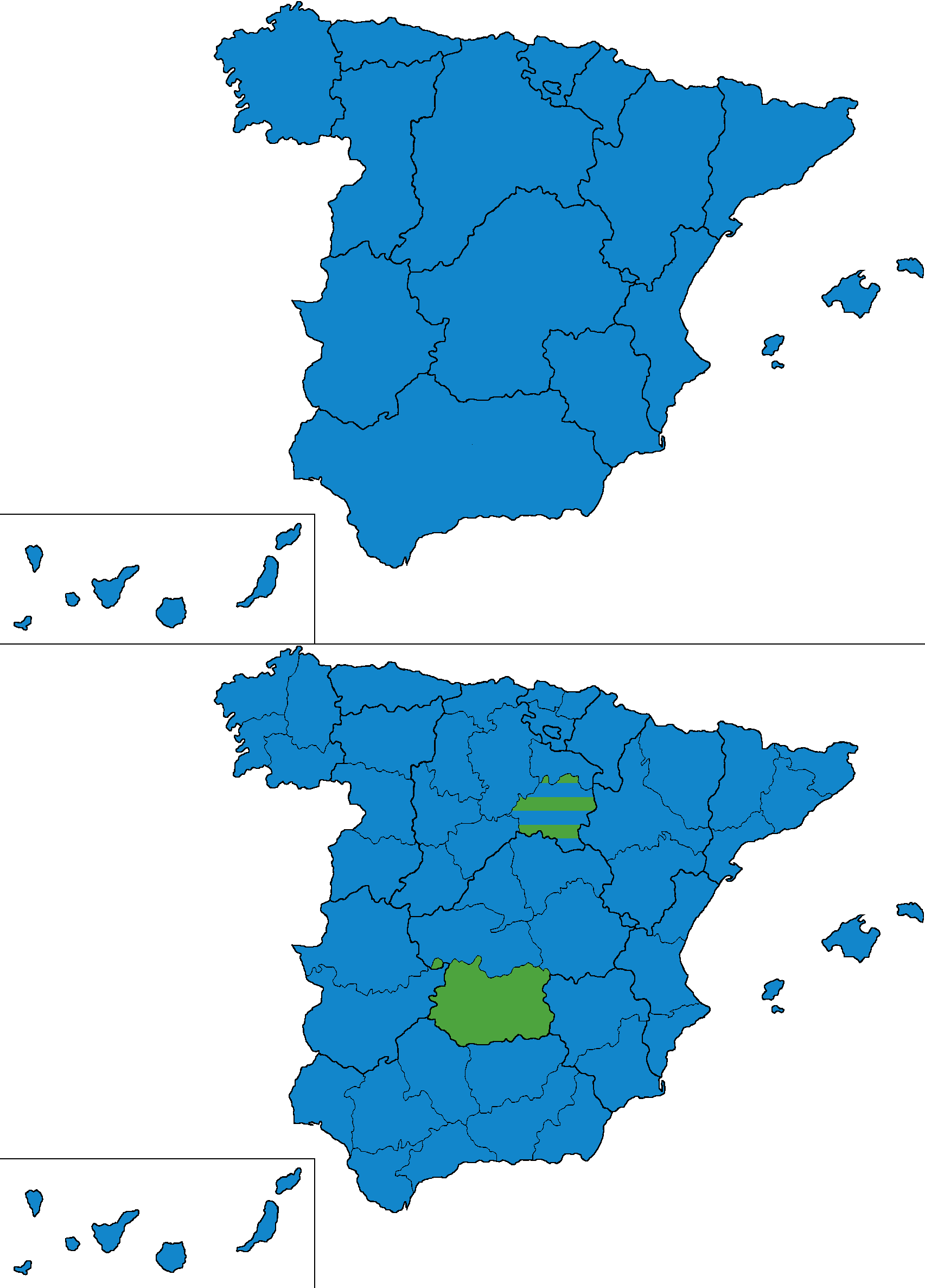 Most voted party in the 1884 Spanish Congress of Deputies election by regions and provinces.